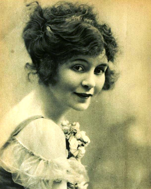 Actress Carroll McComas (1886 -1962), on page 20 of the February 1920 Motion Picture Magazine.